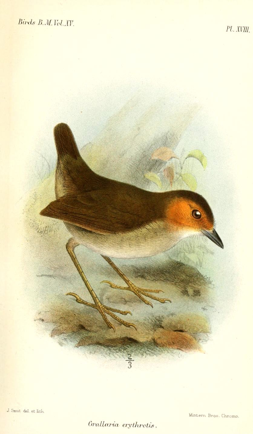 Grallaria erythrotis, Rufous-faced Antpitta